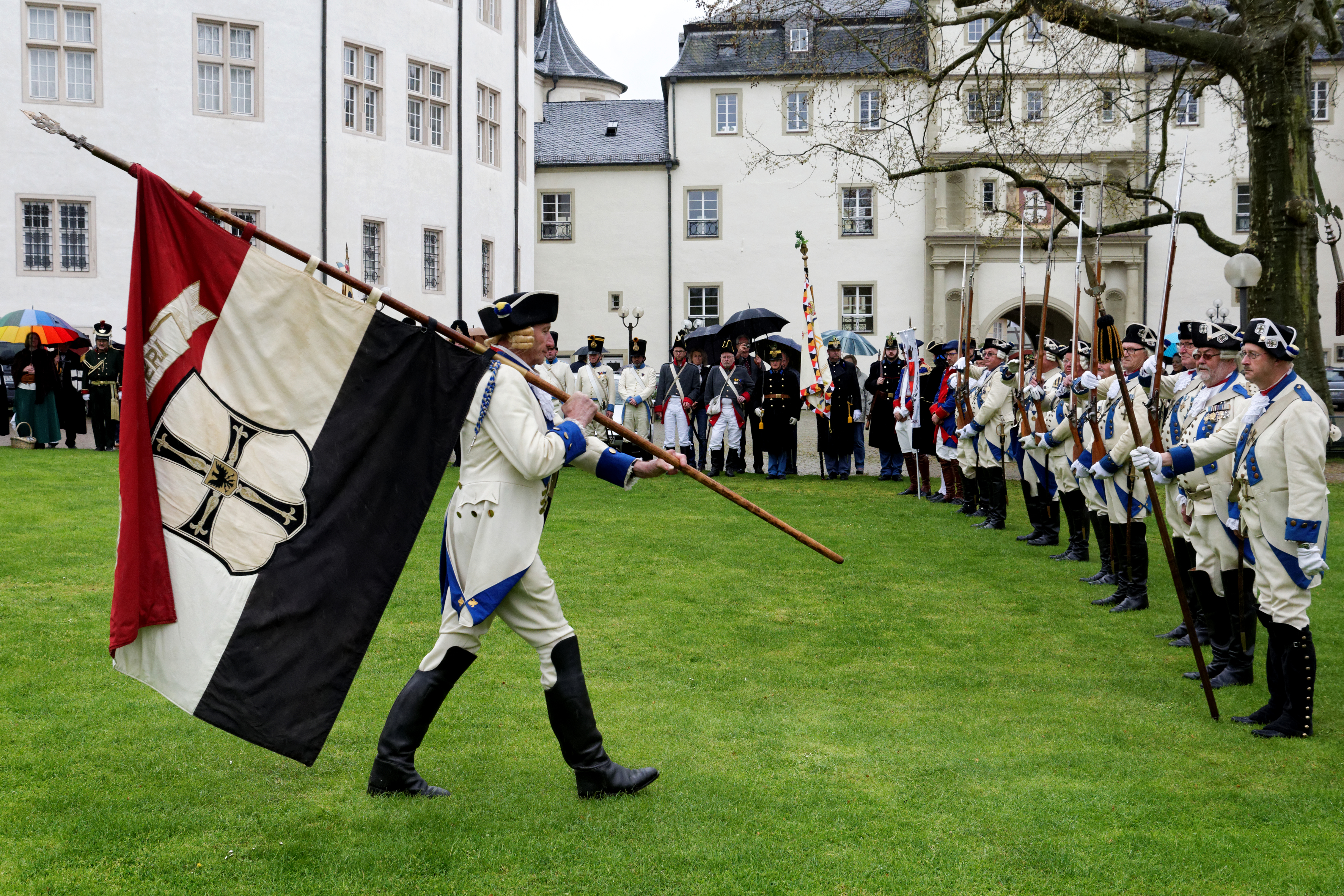 St. George`s days in the German knights Castle Bad Mergentheim.